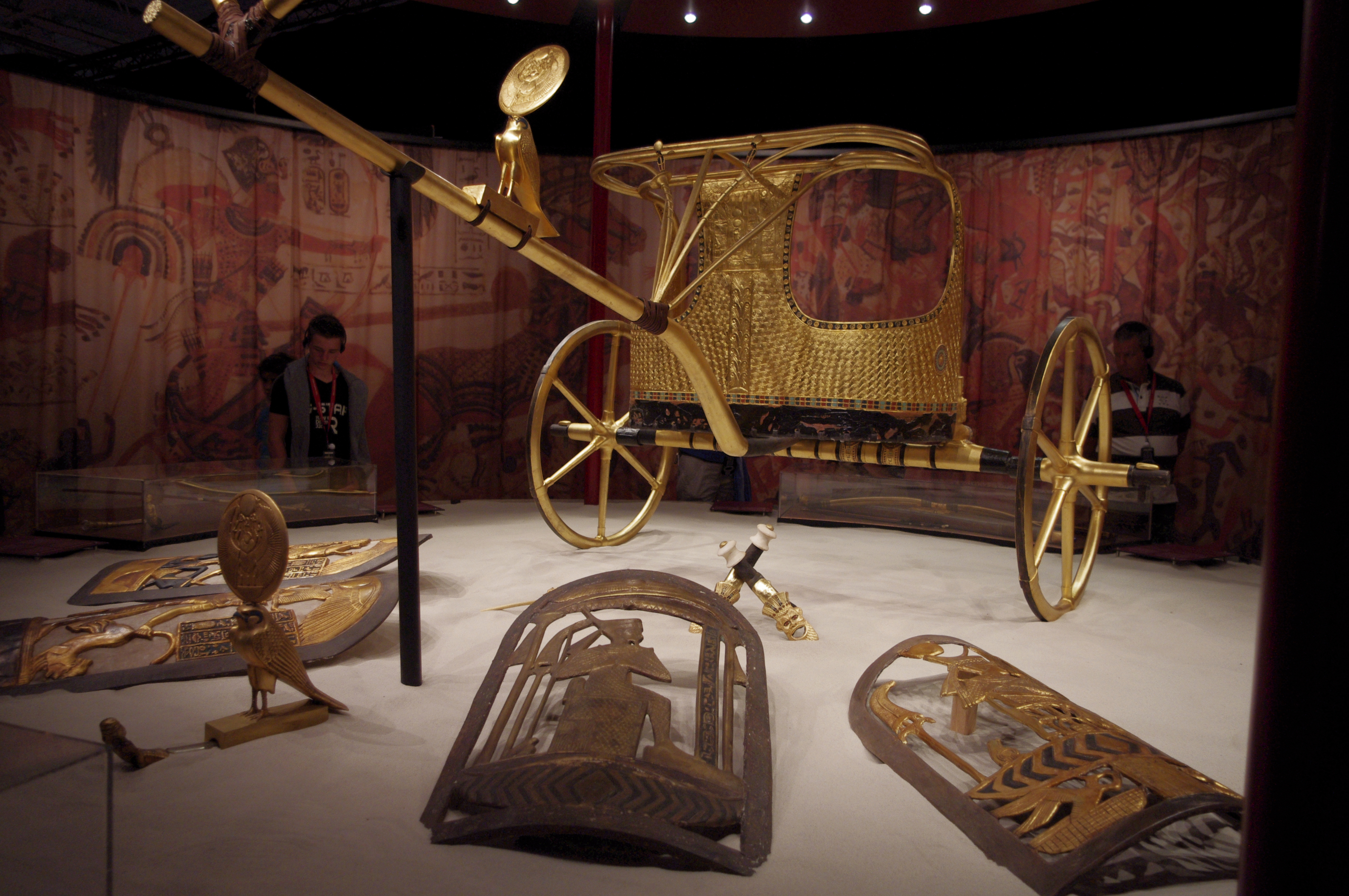 Treasure of Tutankhamun, exposition in Paris 2012.